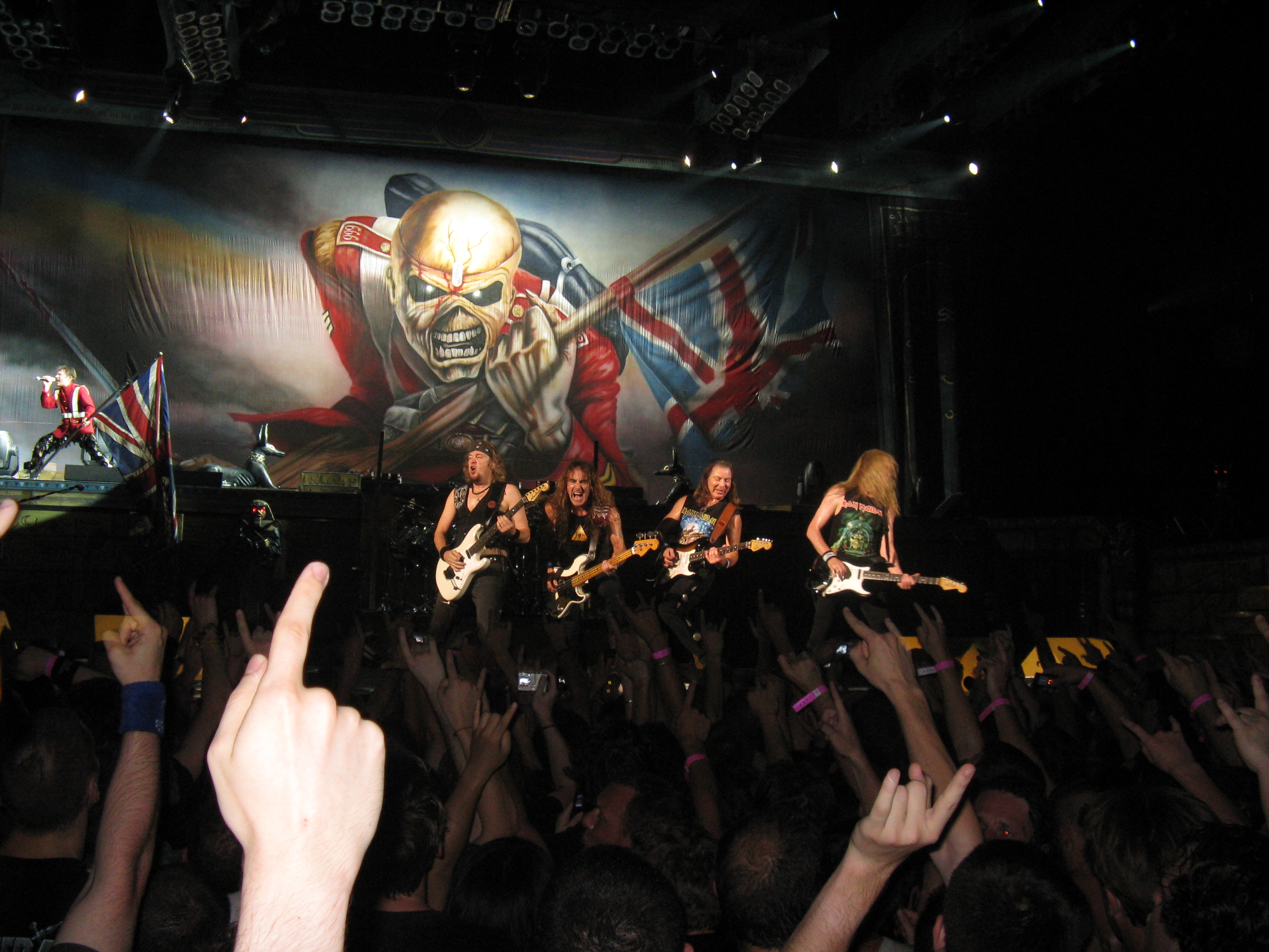 Iron Maiden in Paris (Bercy Arena) on July 1st 2008